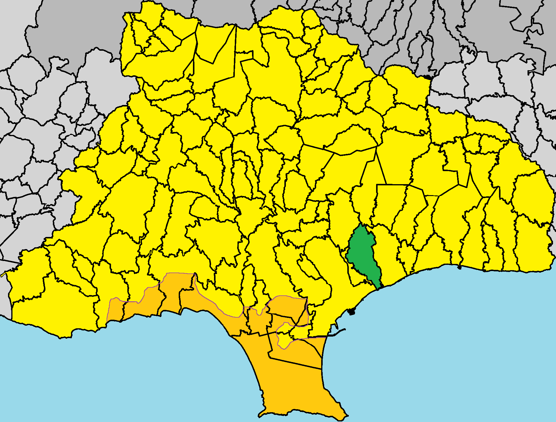 Agios Athanasios, Cyprus in Limassol District.